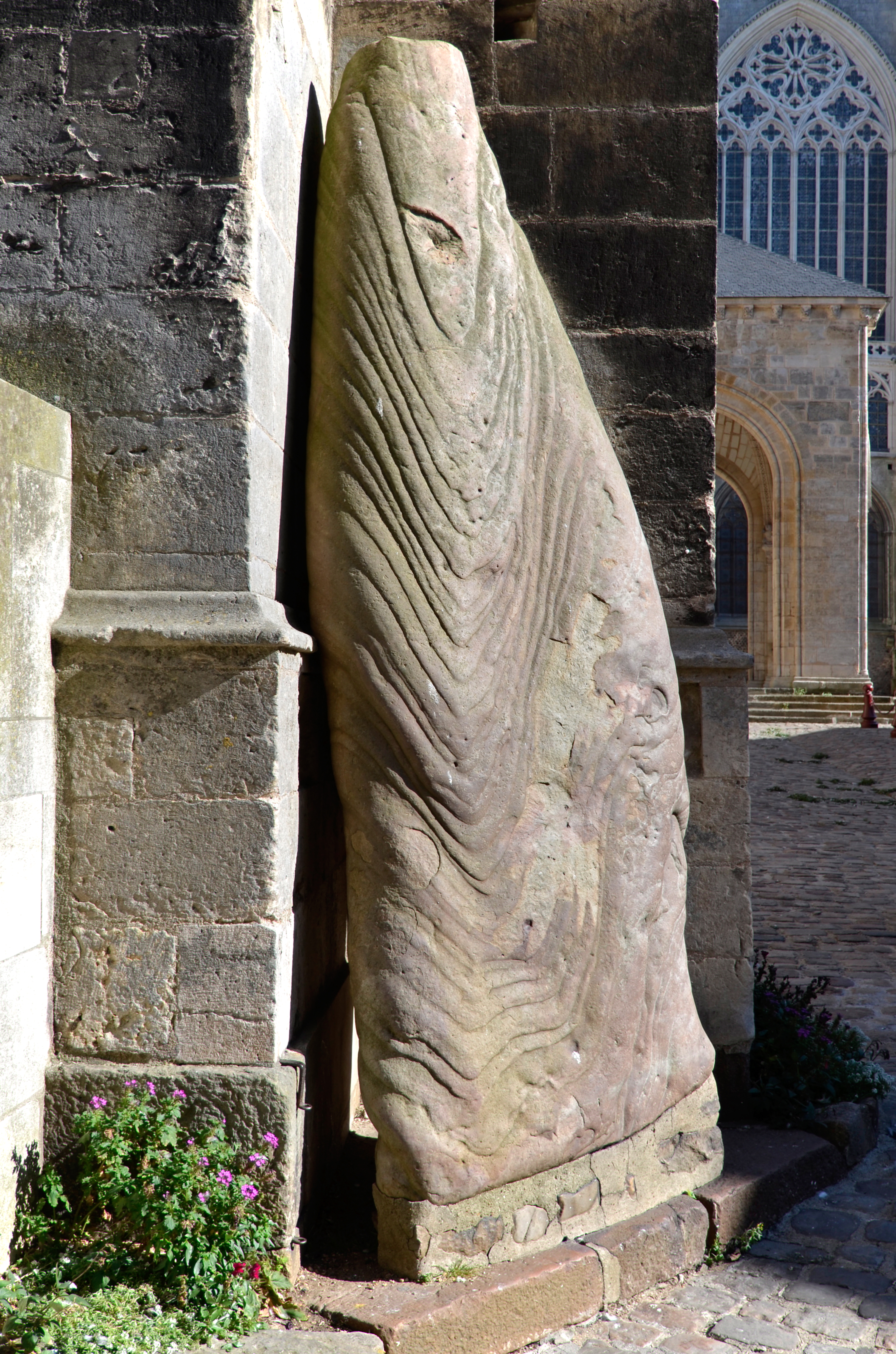 Menhir called Pierre Saint-Julien, set against the cathedral - Le Mans, Sarthe, France .